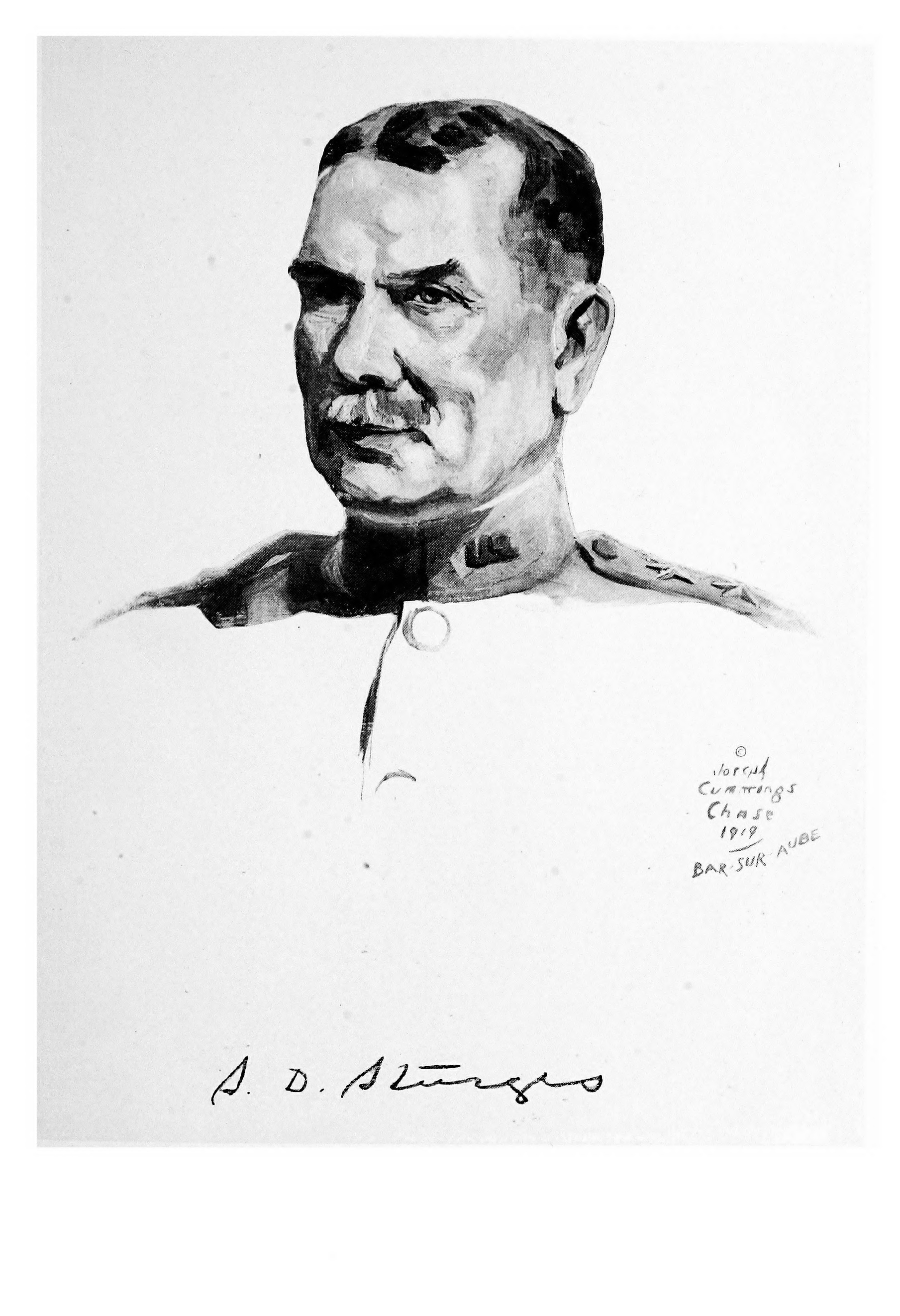 Portrait of Major General Samuel D. Sturgis